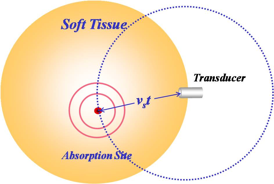 Cartoon illustrating the concept of time of flight of a thermoacoustic wave.